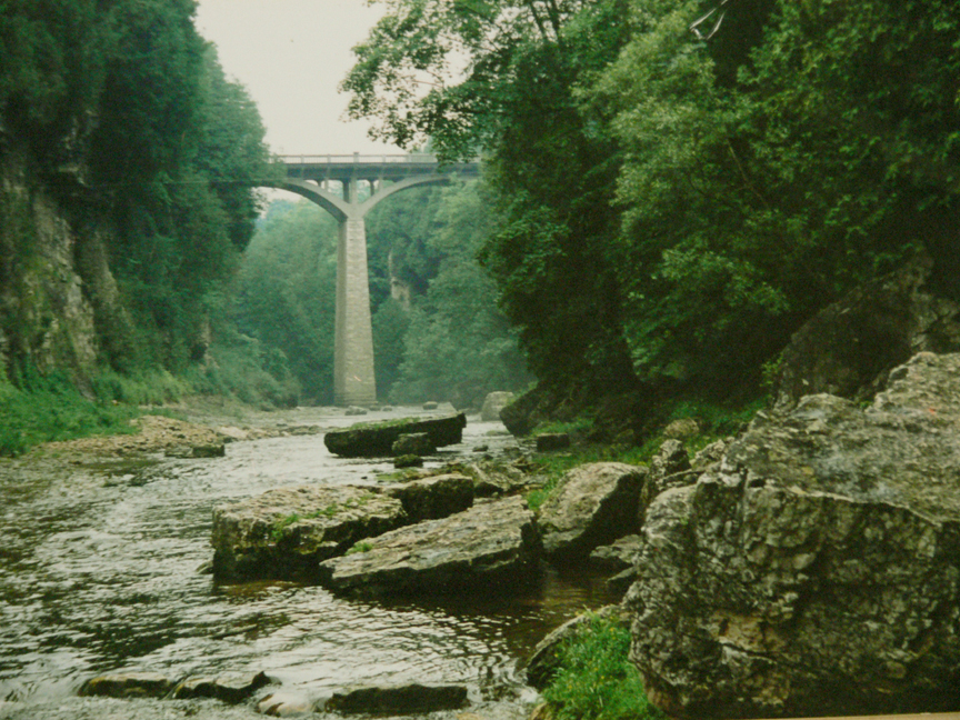 One of Elora's many tourist attractions, the architecturally significant David St. Bridge was saved from destruction by active citizens.